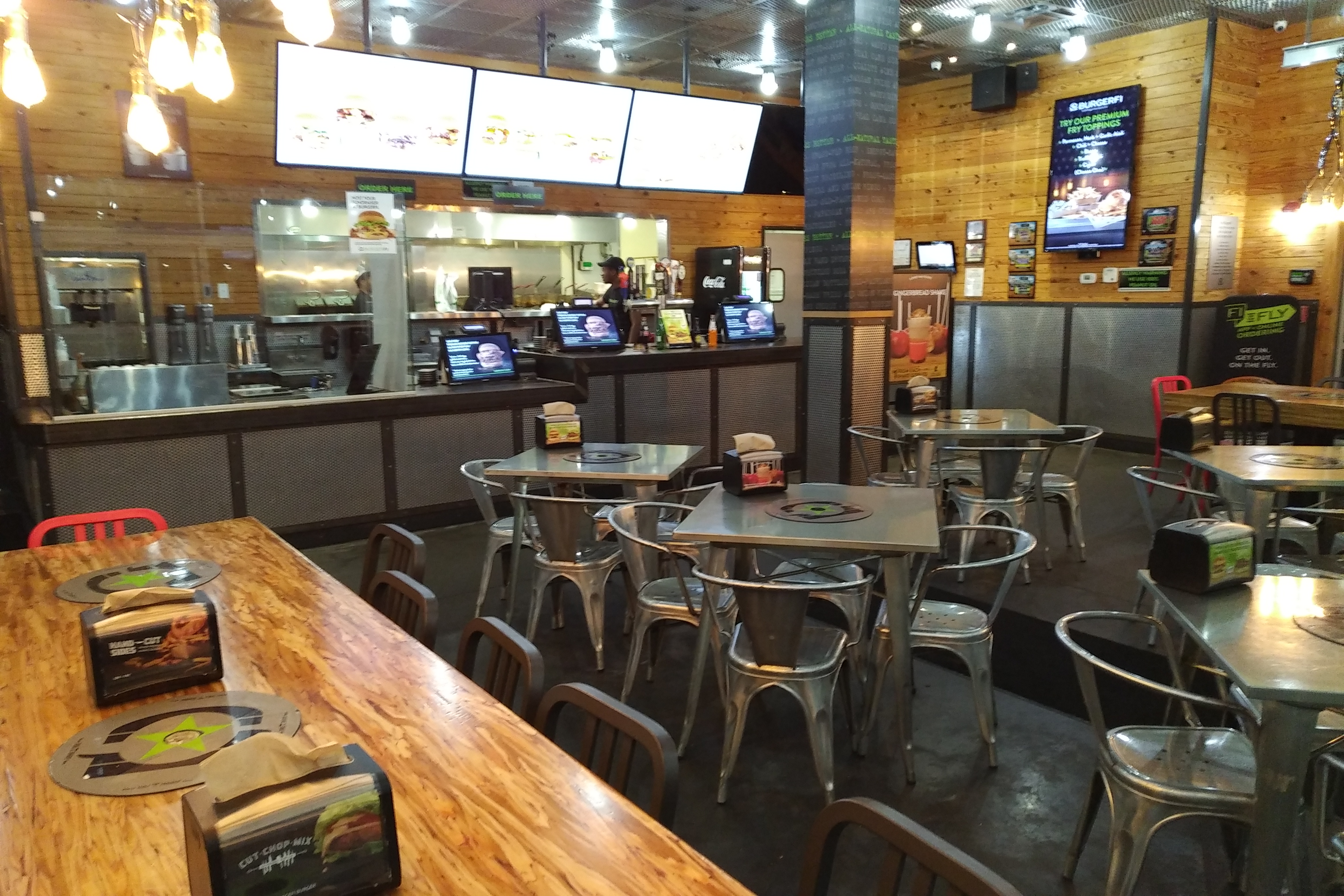 BurgerFi restaurant on Archer Road in Gainesville, Florida.